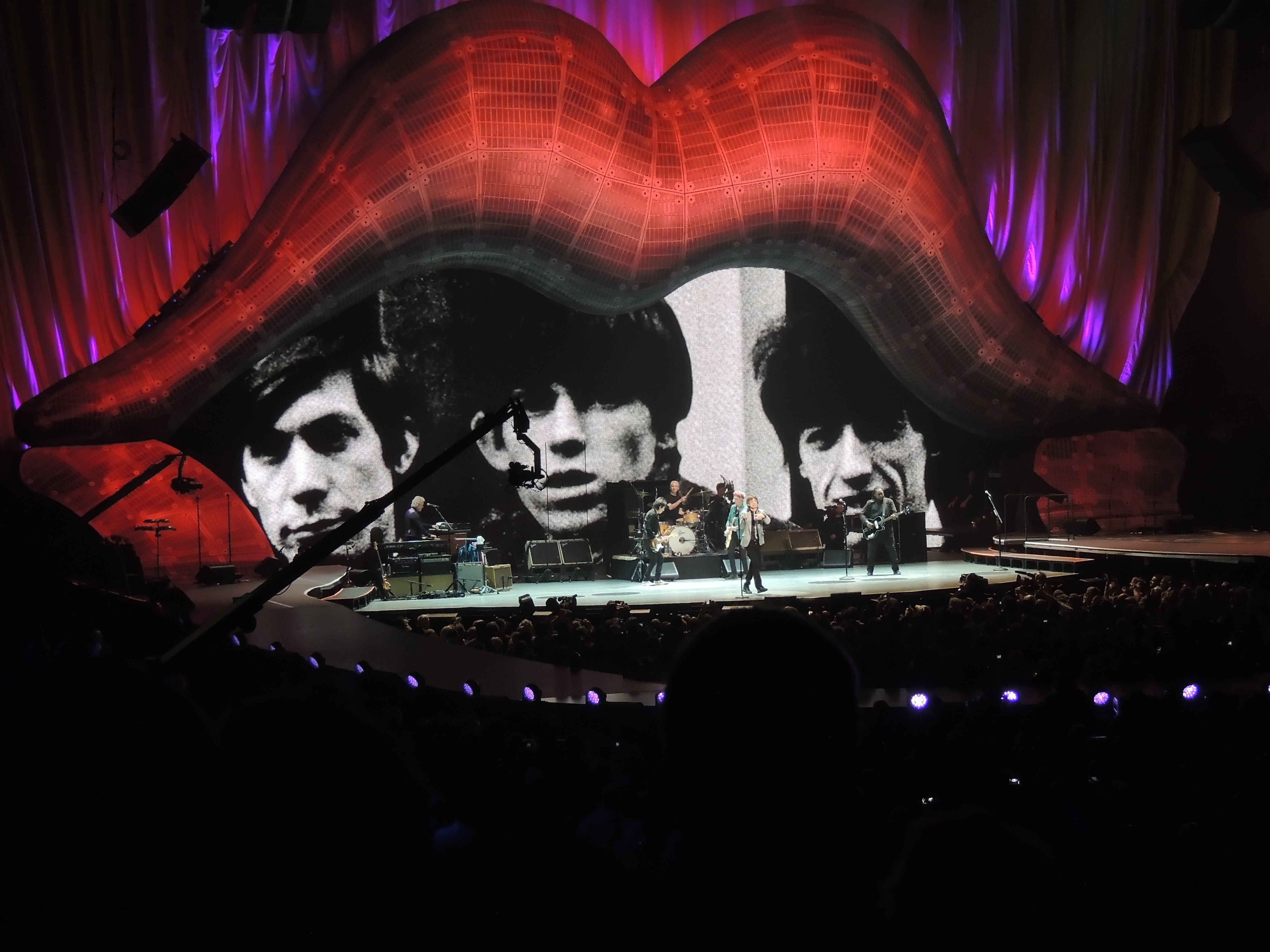 The Rolling Stones at the Prudential Center on 2012-12-13